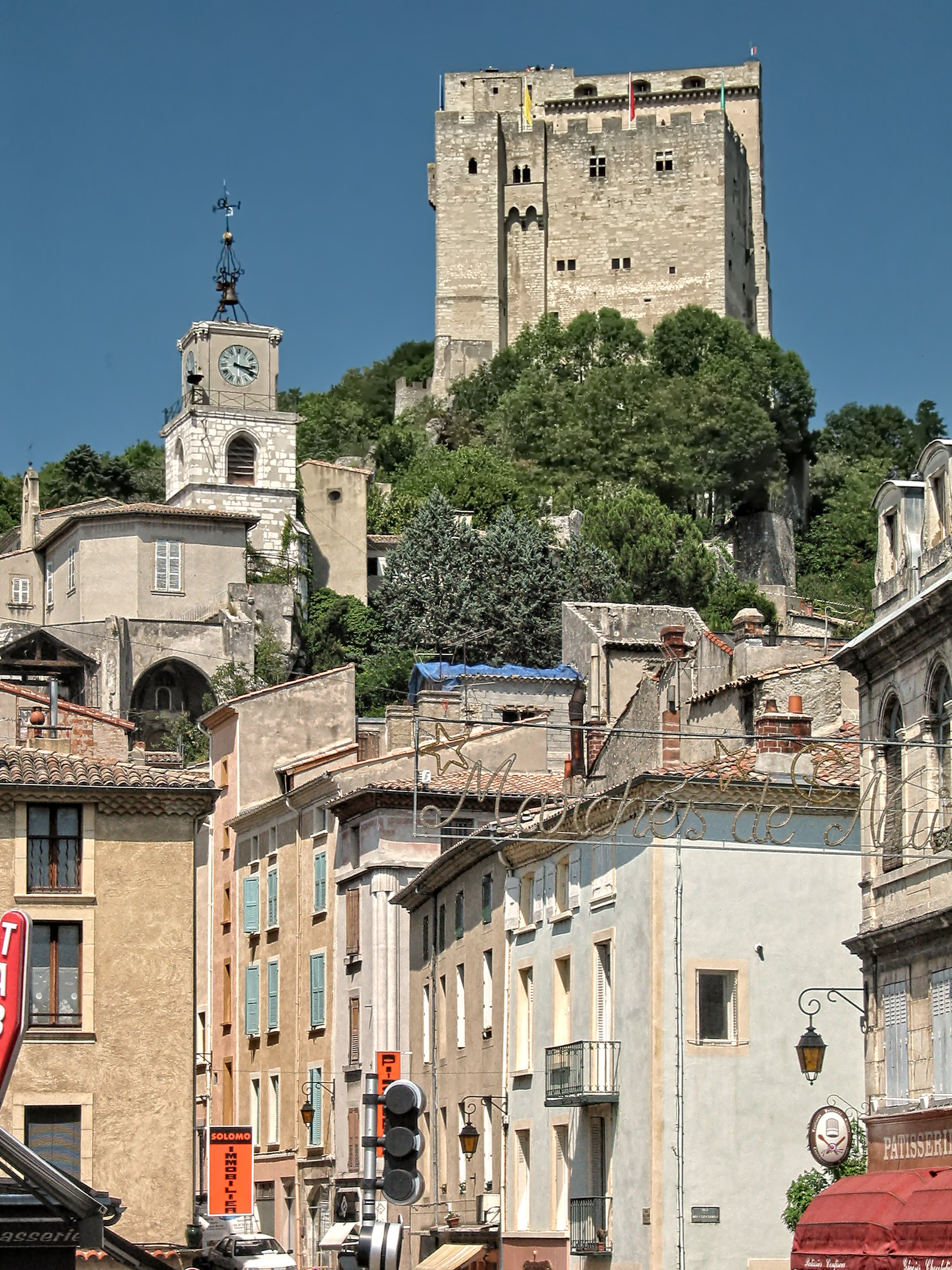 View of the City and the Tower of Crest, Drôme, France